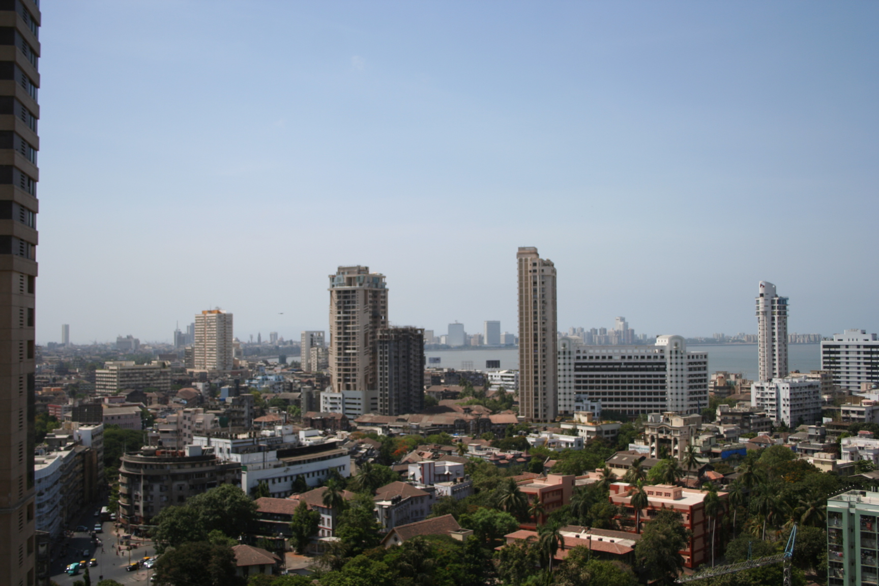 View of downtown from Nana Chowk